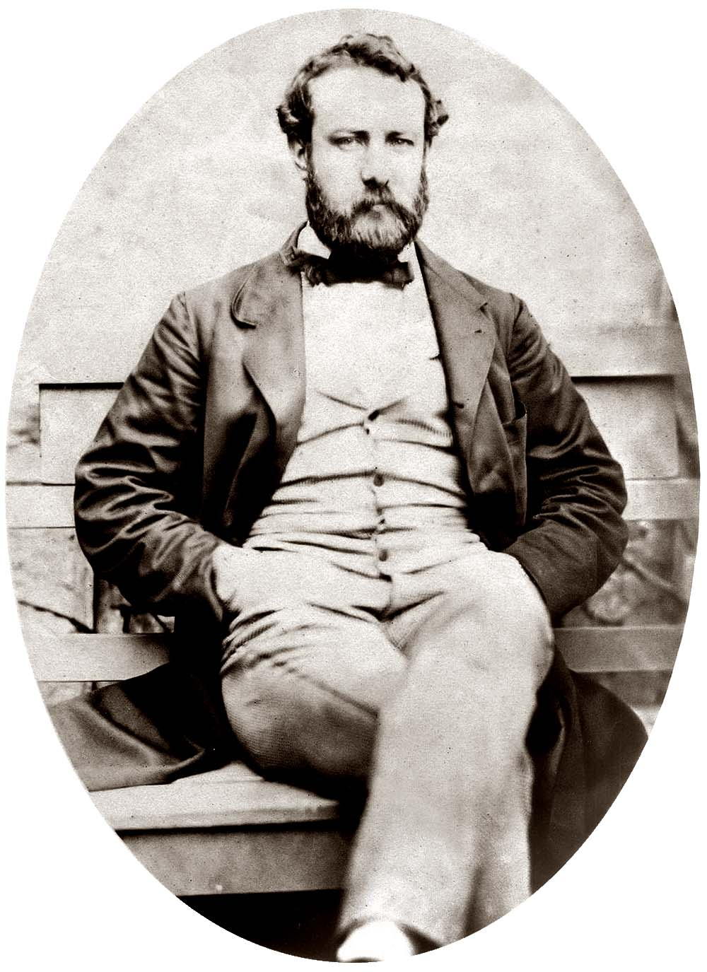 Jules Verne Flickr data on 2011-08-13 Tags: Jules Verne, Old picture, Public Domain License: CC BY-SA 2.0 User: paukrus Ruslan